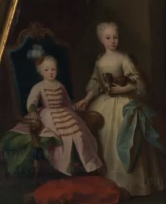 Pedro and Maria Barbara, Infantes of Portugal.